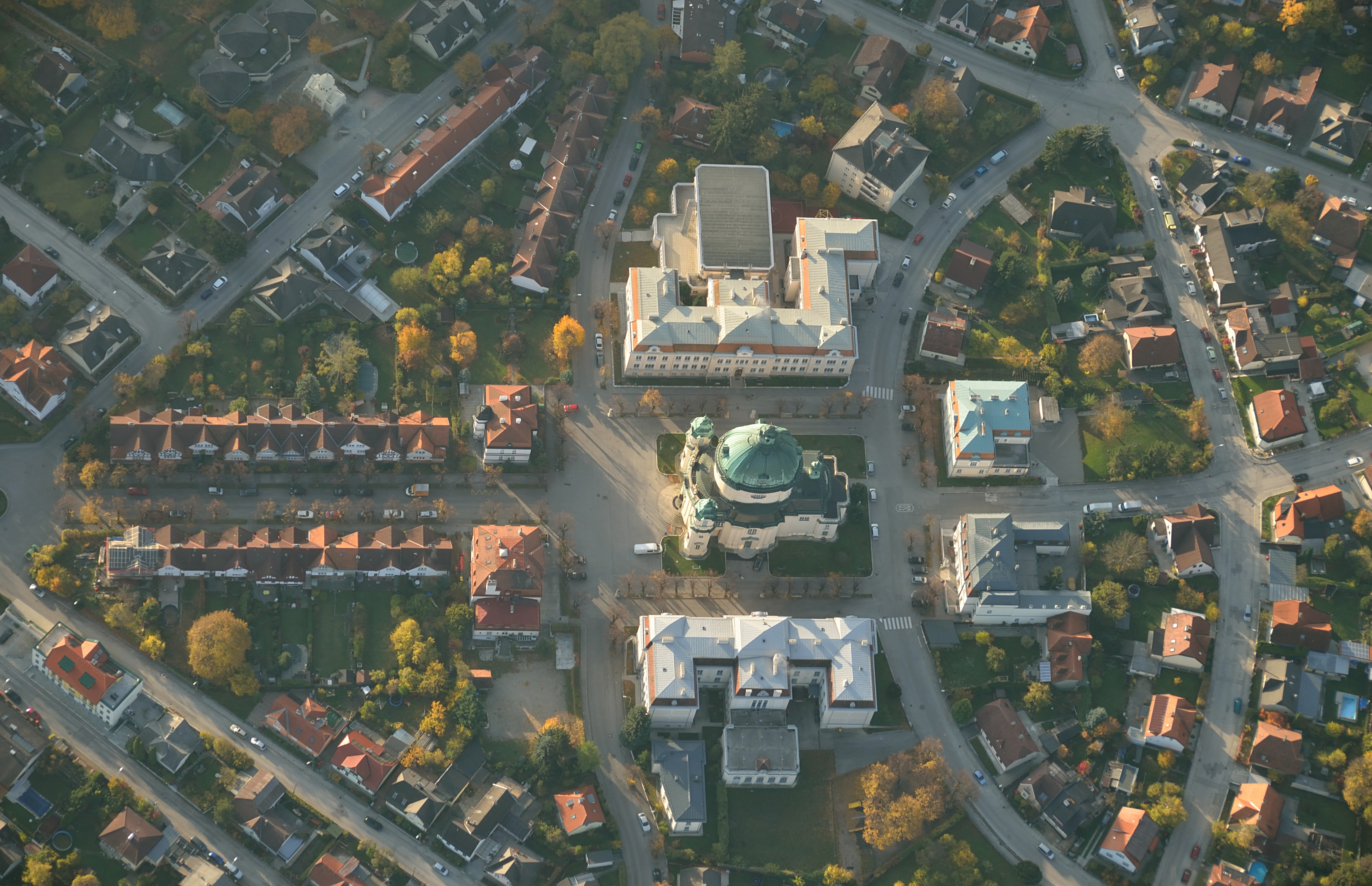 Berndorf, Lower Austria, from hot air balloon.